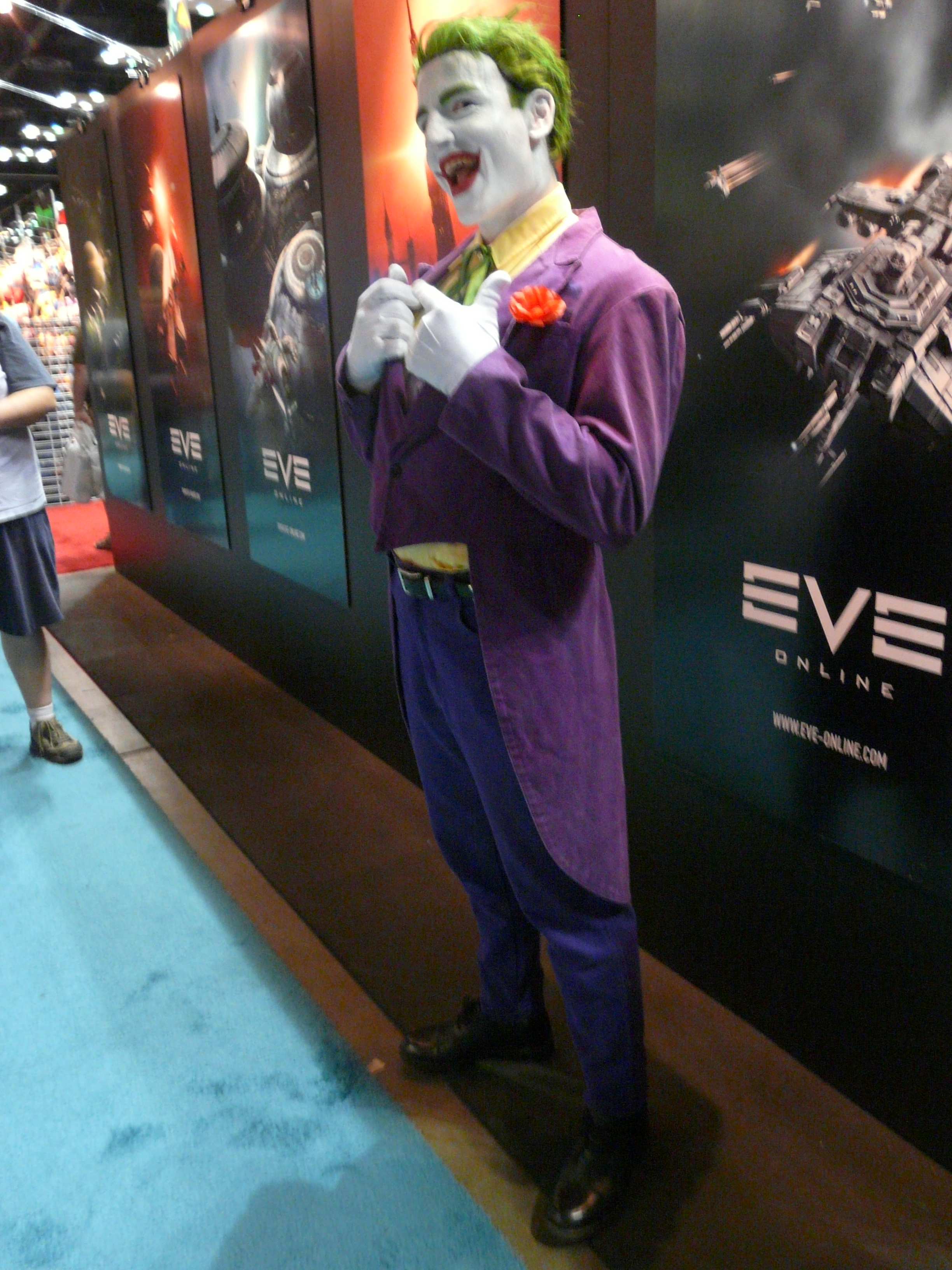 Picture of Gen Con Indy 2008 in Indianapolis, Indiana, USA.